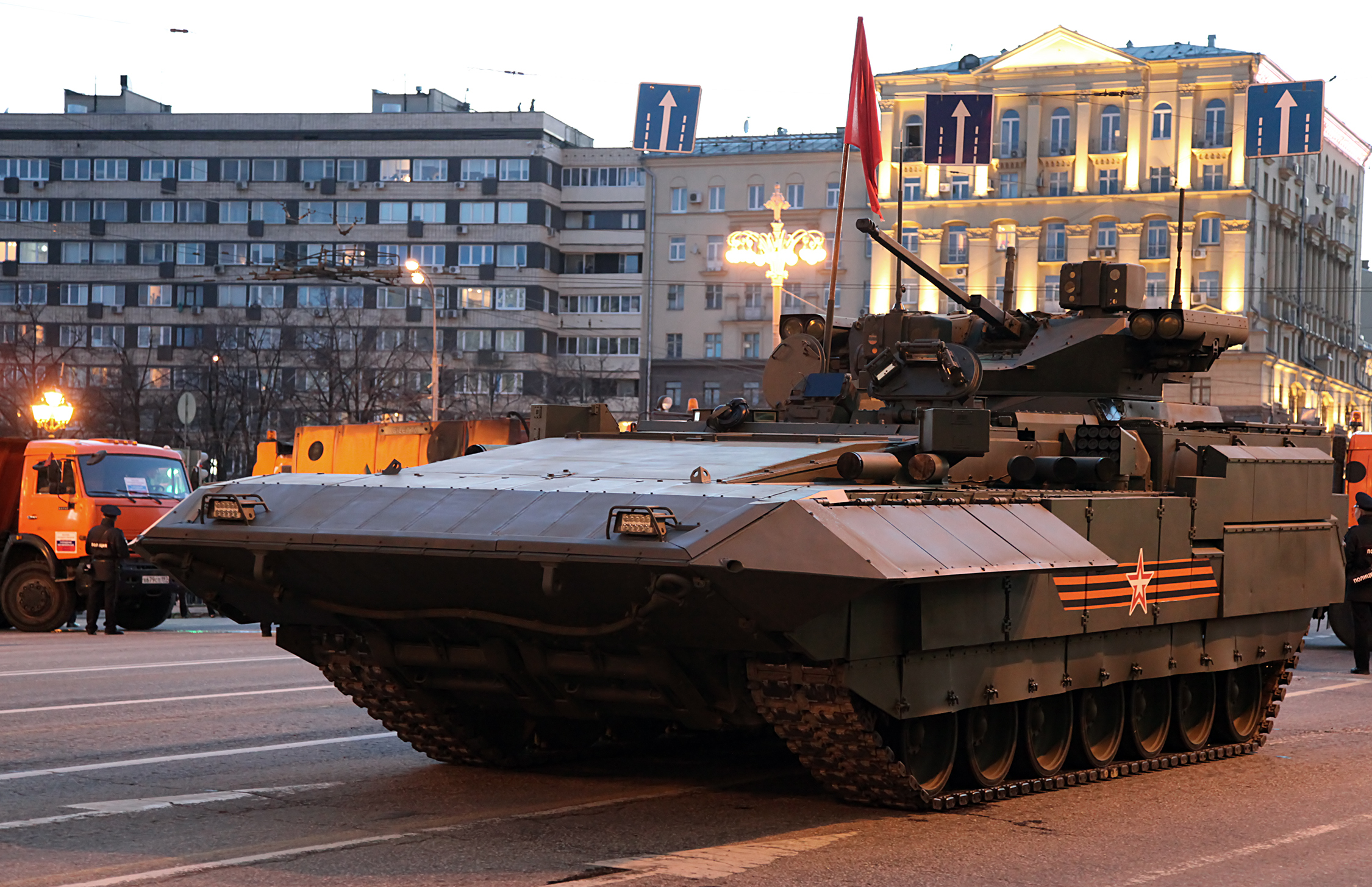 Heavy IFV T-15 on Armata platform